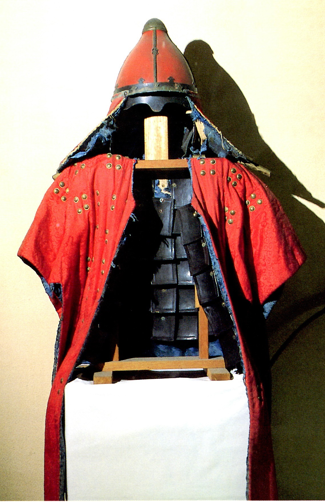 Korean Joseon Dynasty armor, mistakenly labeled as "Mongolian"